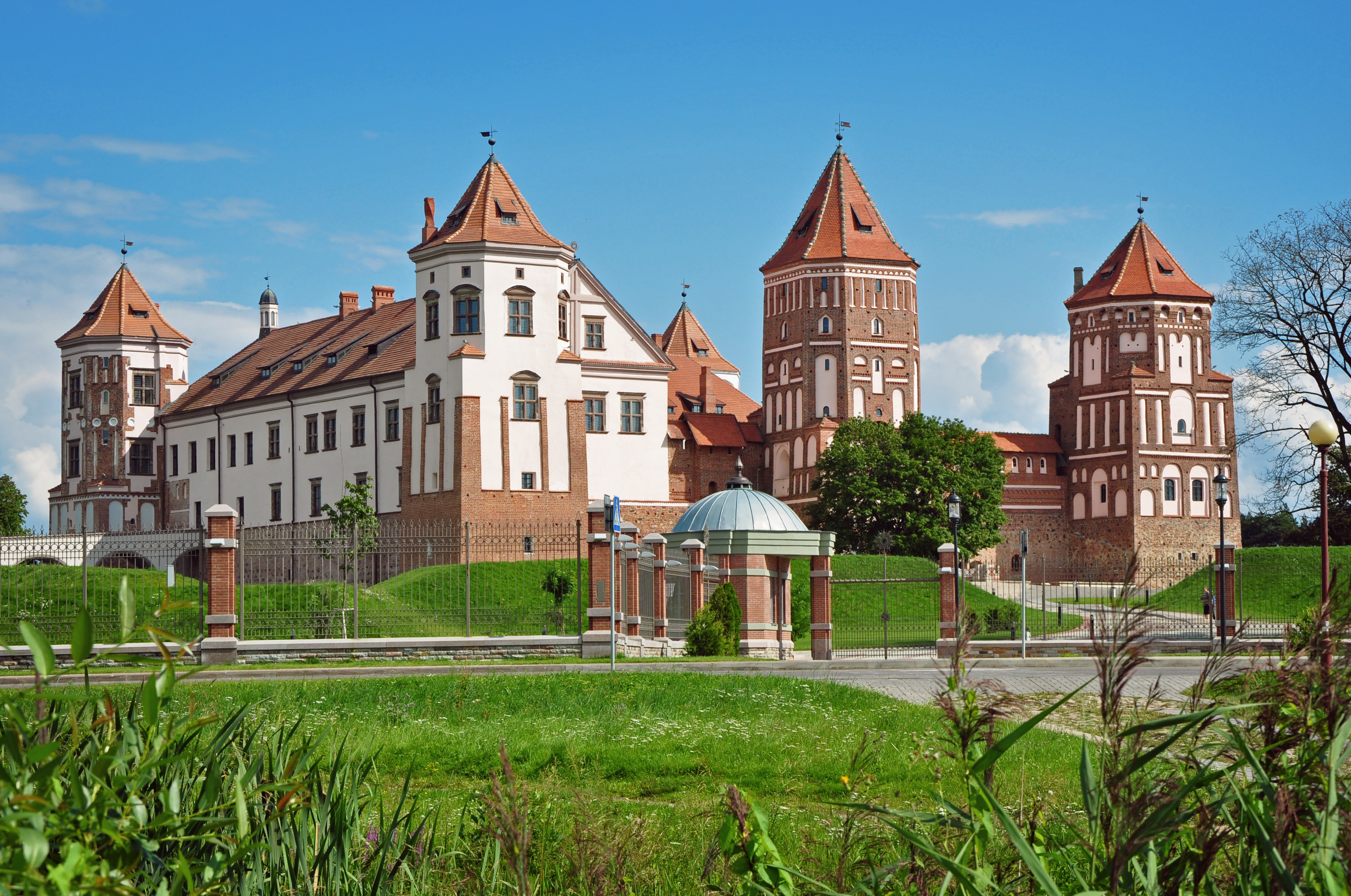 Mir Castle Complex Беларуская (тарашкевіца): Мірскі замак, пляніровачная структура, ляндшафтныя кампазыцыі, рэшткі земляных абарончых збудаваньняў, элемэнты абвадненьня. г.п. Мір